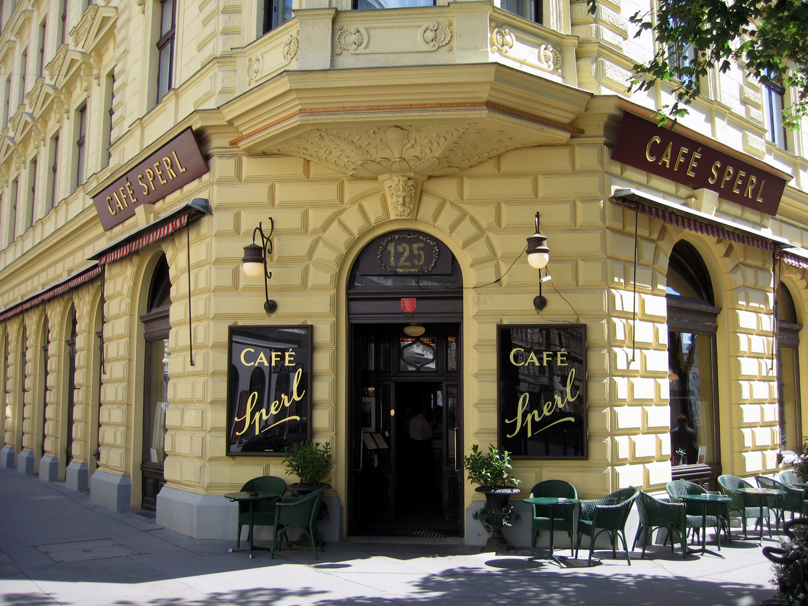 The Café Sperl in the Gumpendorfer Straße in Vienna.